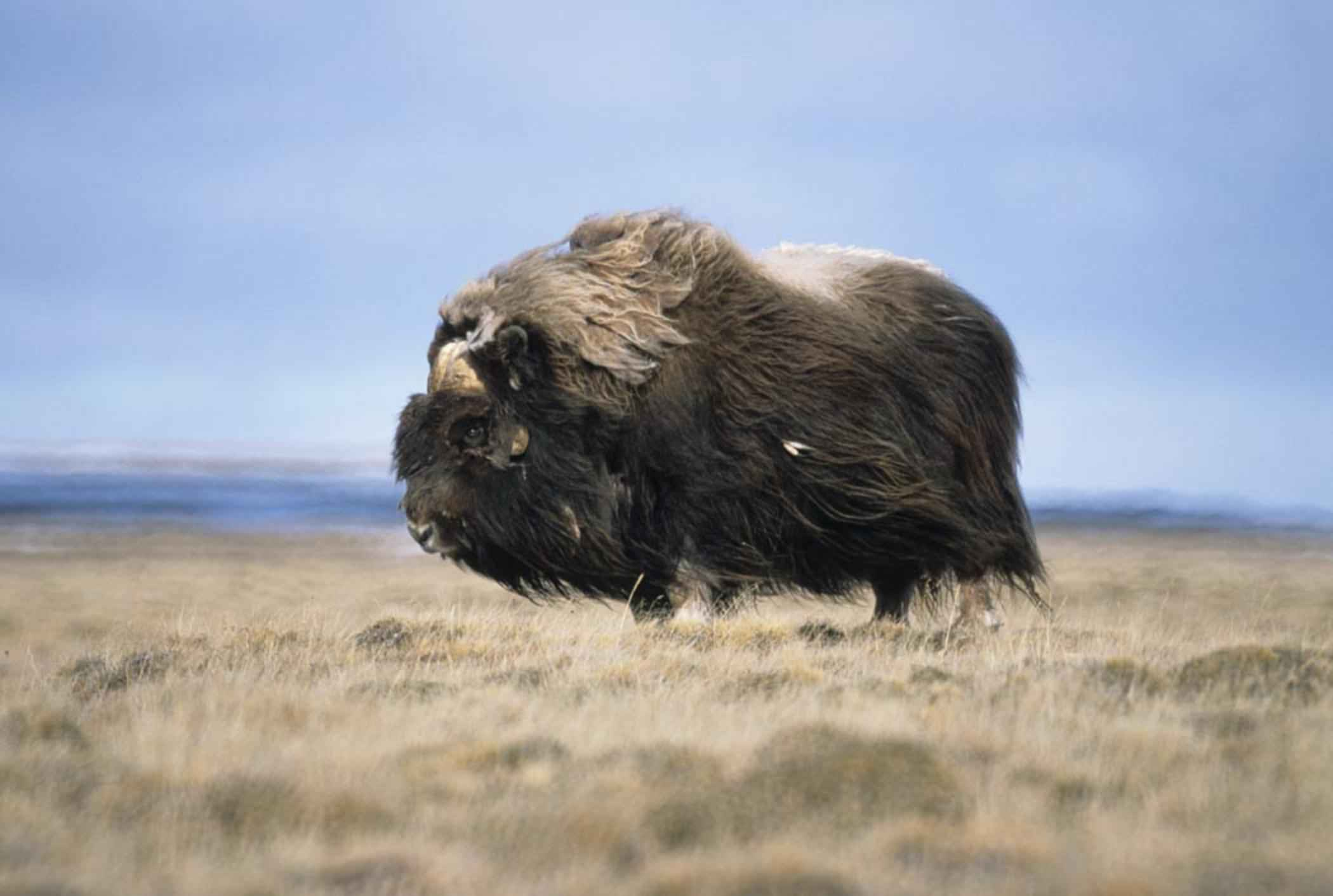 Image title: Musk ox bull animal ovibos moschatus Image from Public domain images website